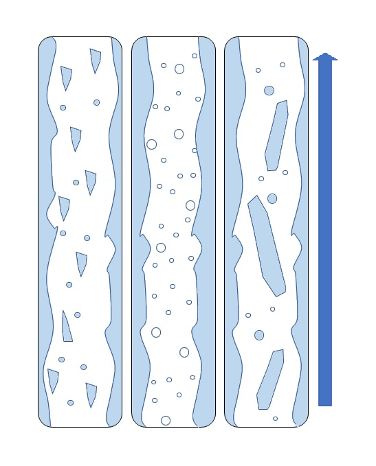 updated version of previous diagram